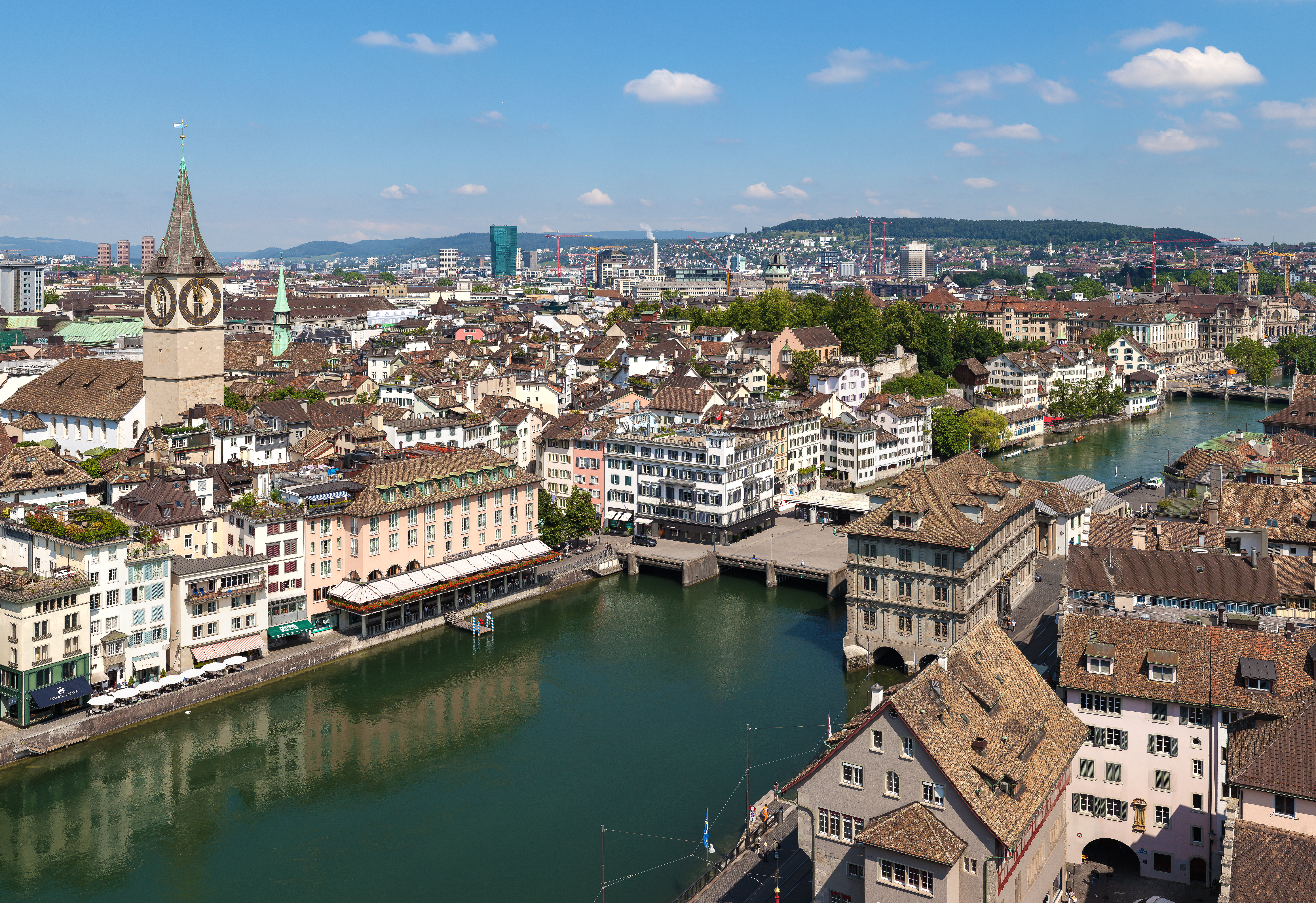 Zürich, Switzerland